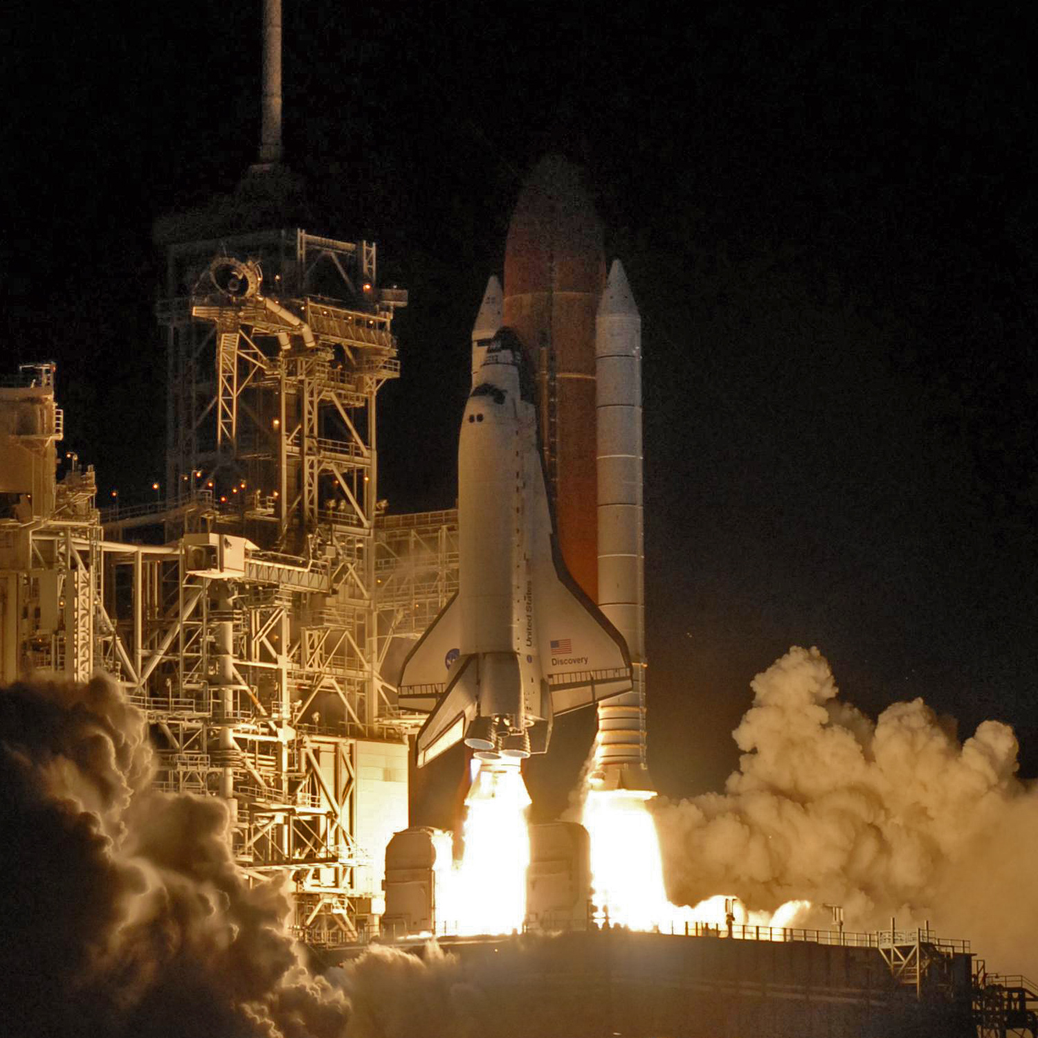 PHOTO NO: KSC-06PD-2750 KENNEDY SPACE CENTER, FLA. -- Space Shuttle Discovery seems to be standing on the fiery columns erupting from the solid rocket boosters as it lifts off Launch Pad 39B on mission STS-116. Liftoff occurred on time at 8:47 p.m. EST. This was the second launch attempt of Discovery on mission STS-116. The first launch attempt on Dec. 7 was postponed due a low cloud ceiling over Kennedy Space Center. This is Discovery's 33rd mission and the first night launch since 2003. The 20th shuttle mission to the International Space Station, STS-116 carries another truss segment, P5. It will serve as a spacer, mated to the P4 truss that was attached in September. After installing the P5, the crew will reconfigure and redistribute the power generated by two pairs of U.S. solar arrays. Landing is expected Dec. 21 at KSC. Photo credit: NASA/Sandra Joseph, Robert Murray, Chris Lynch